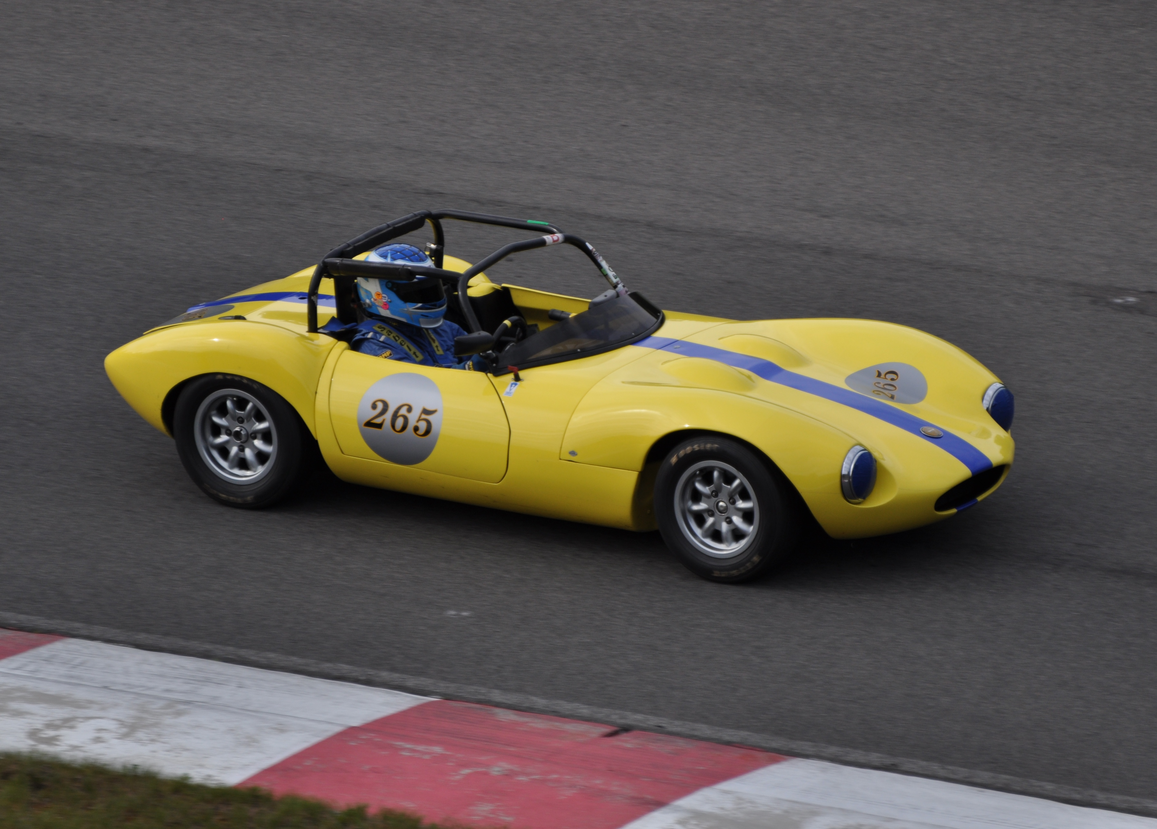 Bob Hardison pushes his Ginetta G4 racing car through The Esses at Circuit Mont-Tremblant, during the 2010 Legends of Motorsport meeting.